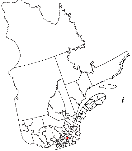 Drummondville. Volapük: Topam in provin: Québec.